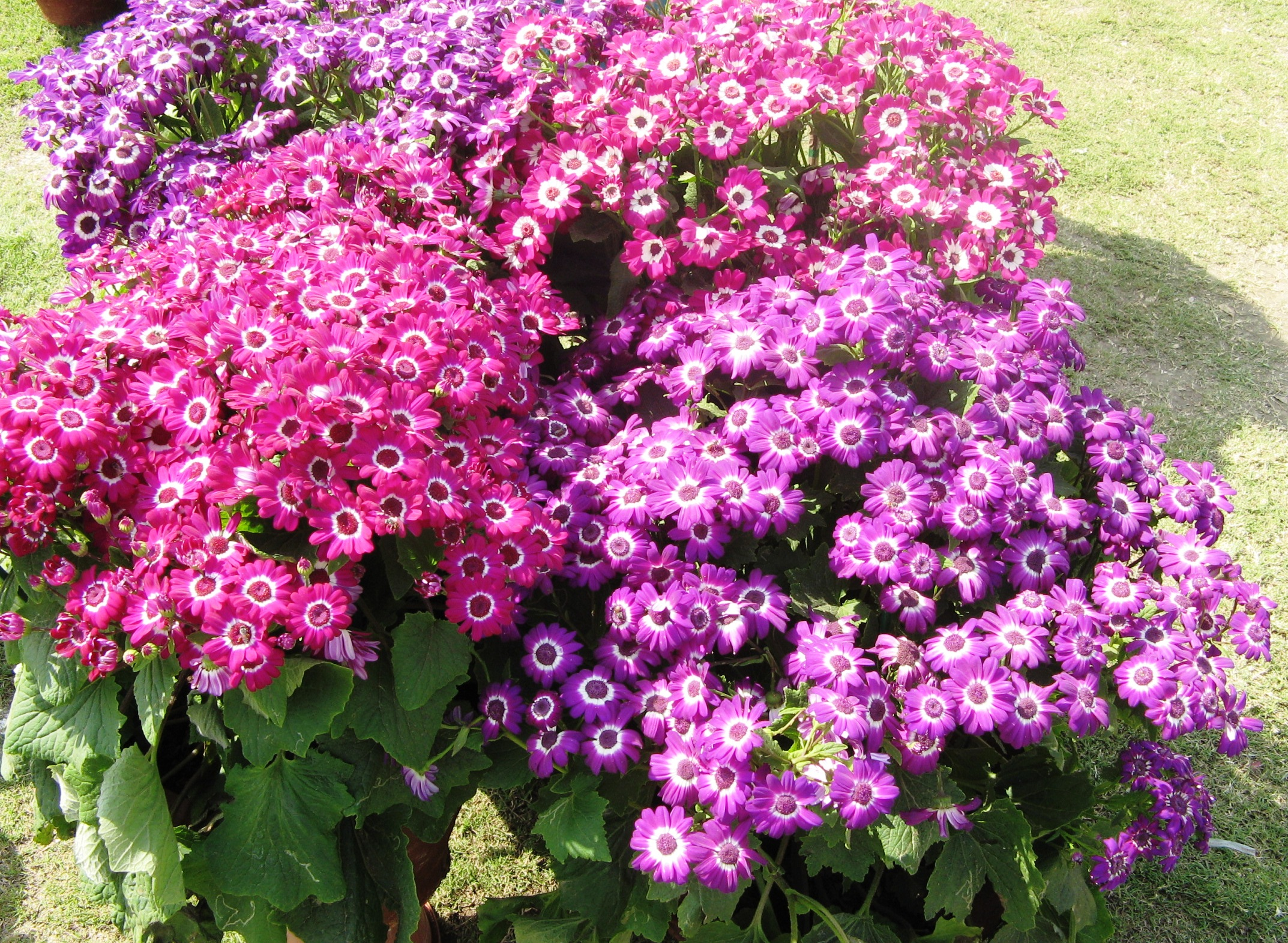 this is the photo of noida flower show taken by me.